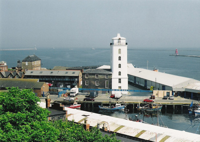 North Shields fish quay Looking down at the 'Gut' and beyond, the mouth of the Tyne